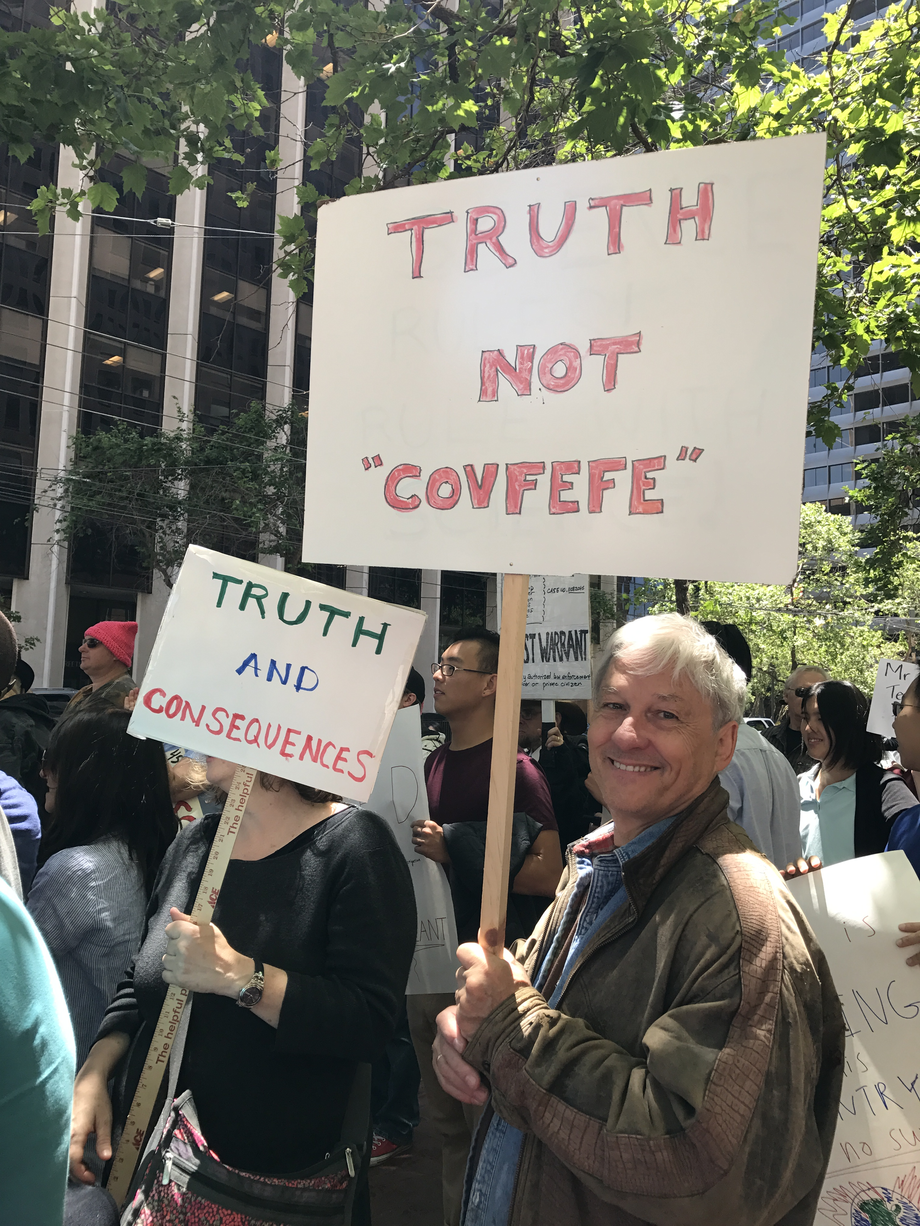 Flashmob For Truth